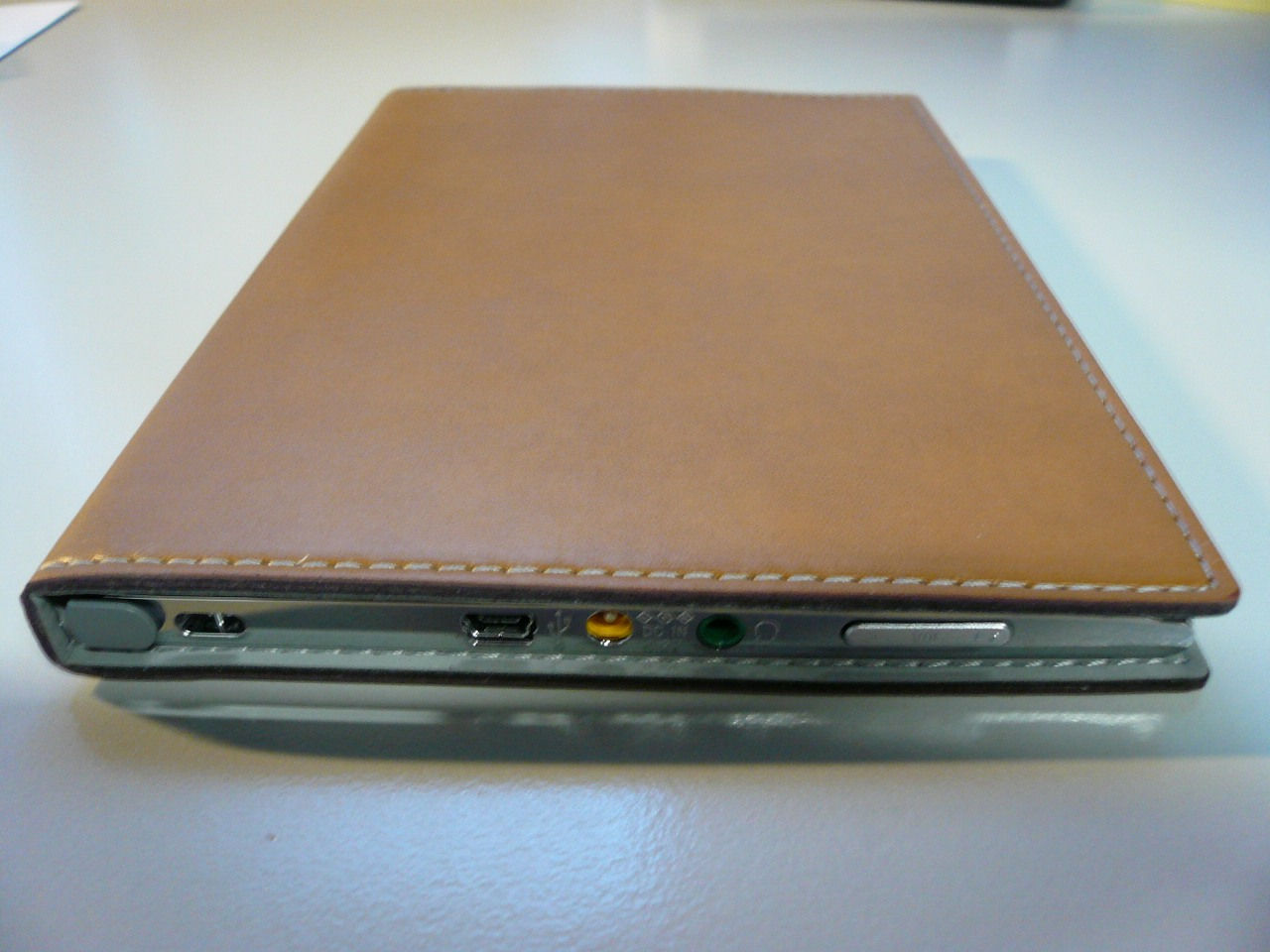 Sony Reader PRS-505 with leather binding